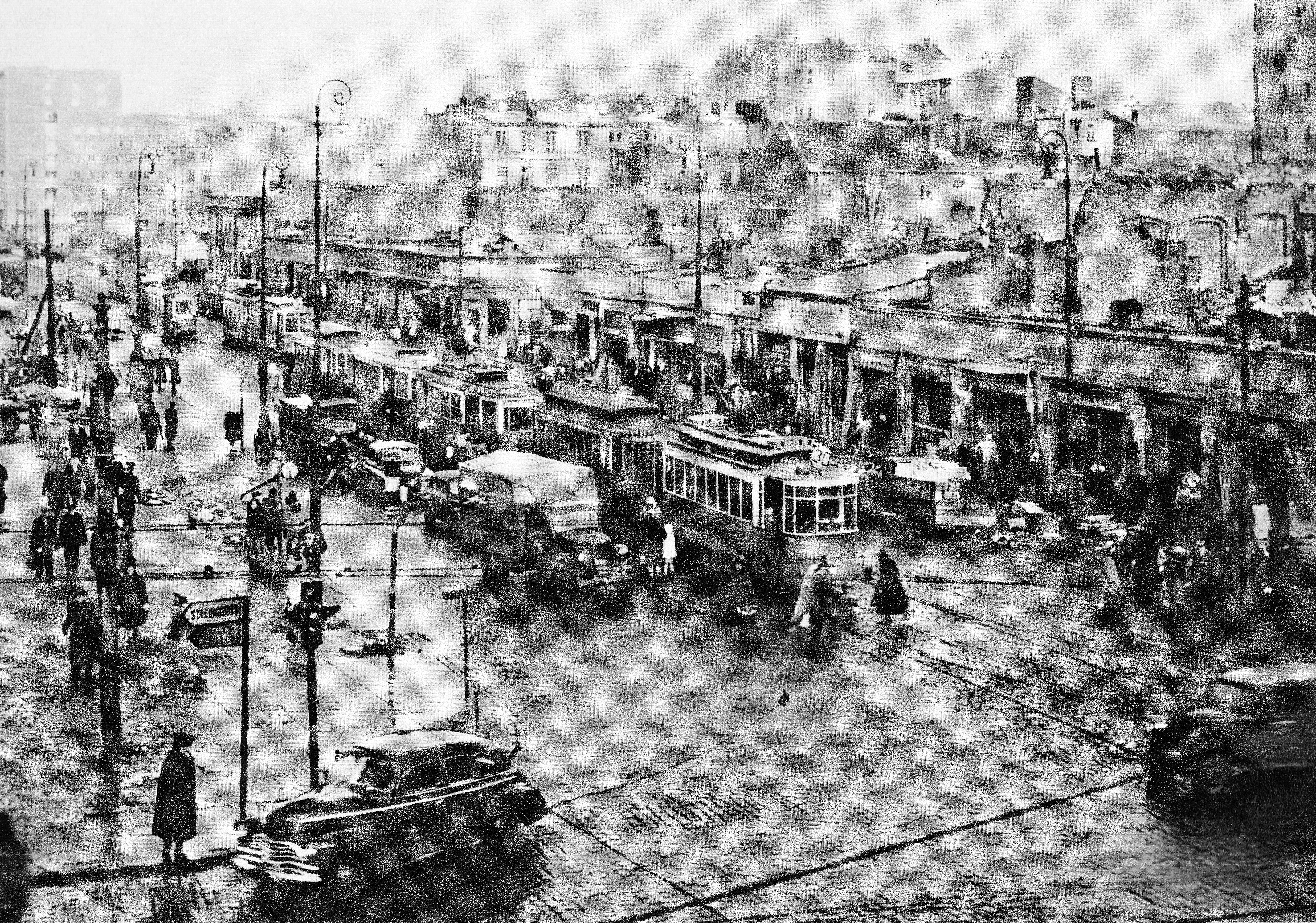 Marszałkowska Street